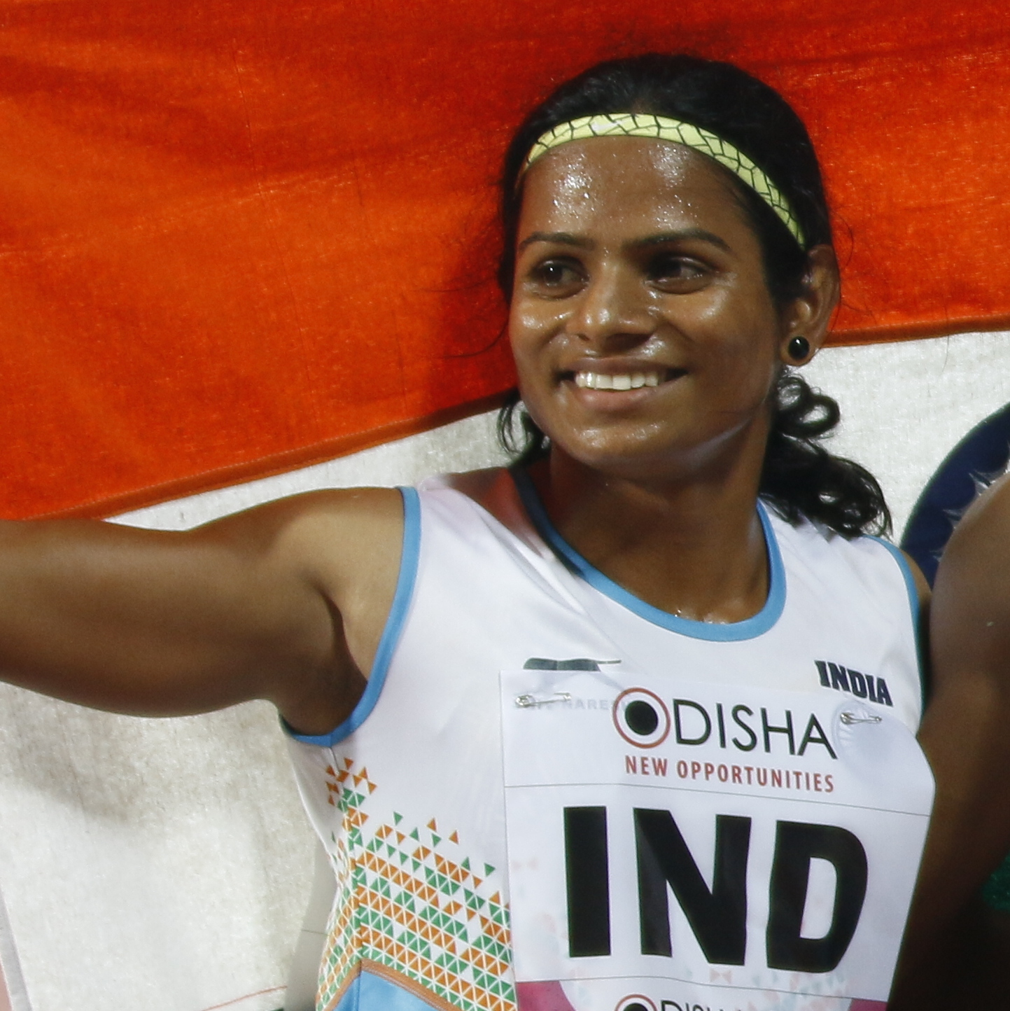 Dutee Chand, Srabani Nanda, Himashree Roy And Merlin Joseph(Bronze Medalist For India) from the 22nd Asian Games in Odisha. 2017 Asian Athletics Championships. 6 to 9 July 2017 at the Kalinga Stadium in Bhubaneswar